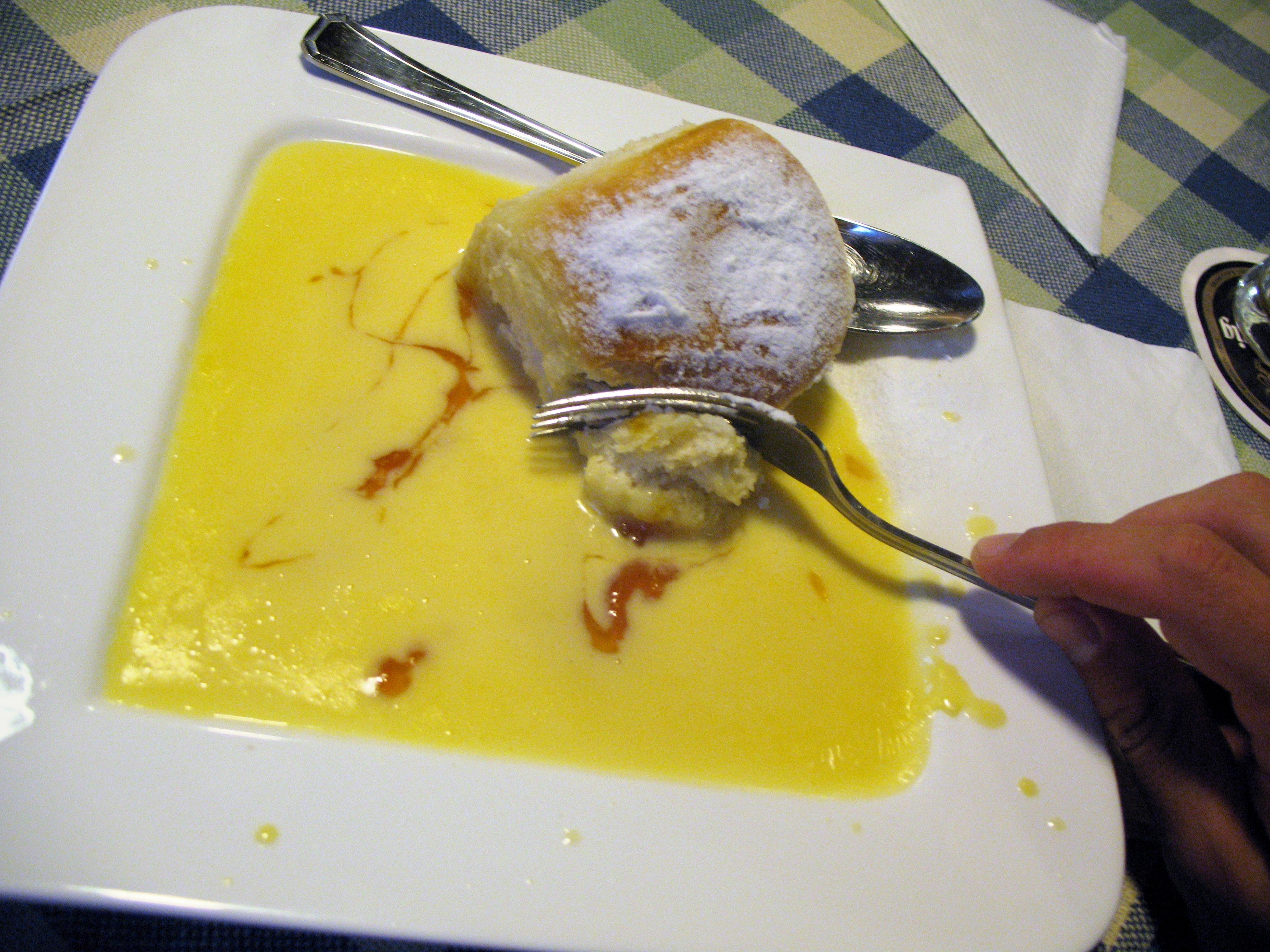 Apple Strudel with Vanilla Sauce, Obertraun, Austria